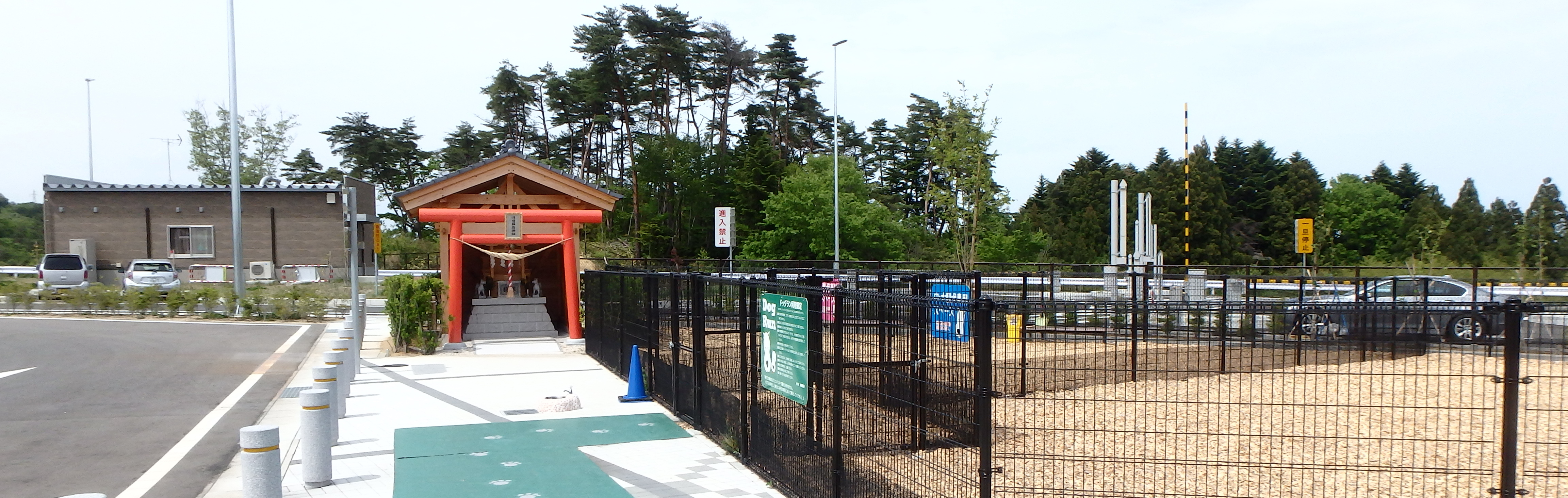 Minamisōma Kashima Service Area,Fukushima prefecture,Japan